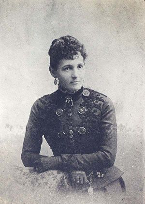 Ellen Lawson Dabbs circa 1890.